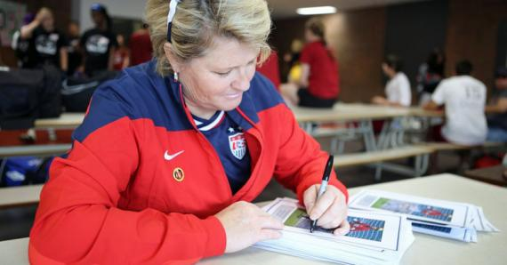 Mary Harvey autographs signs for fans during her visit to Canada, June 24, 2015 [U.S. Embassy Canada Photo]